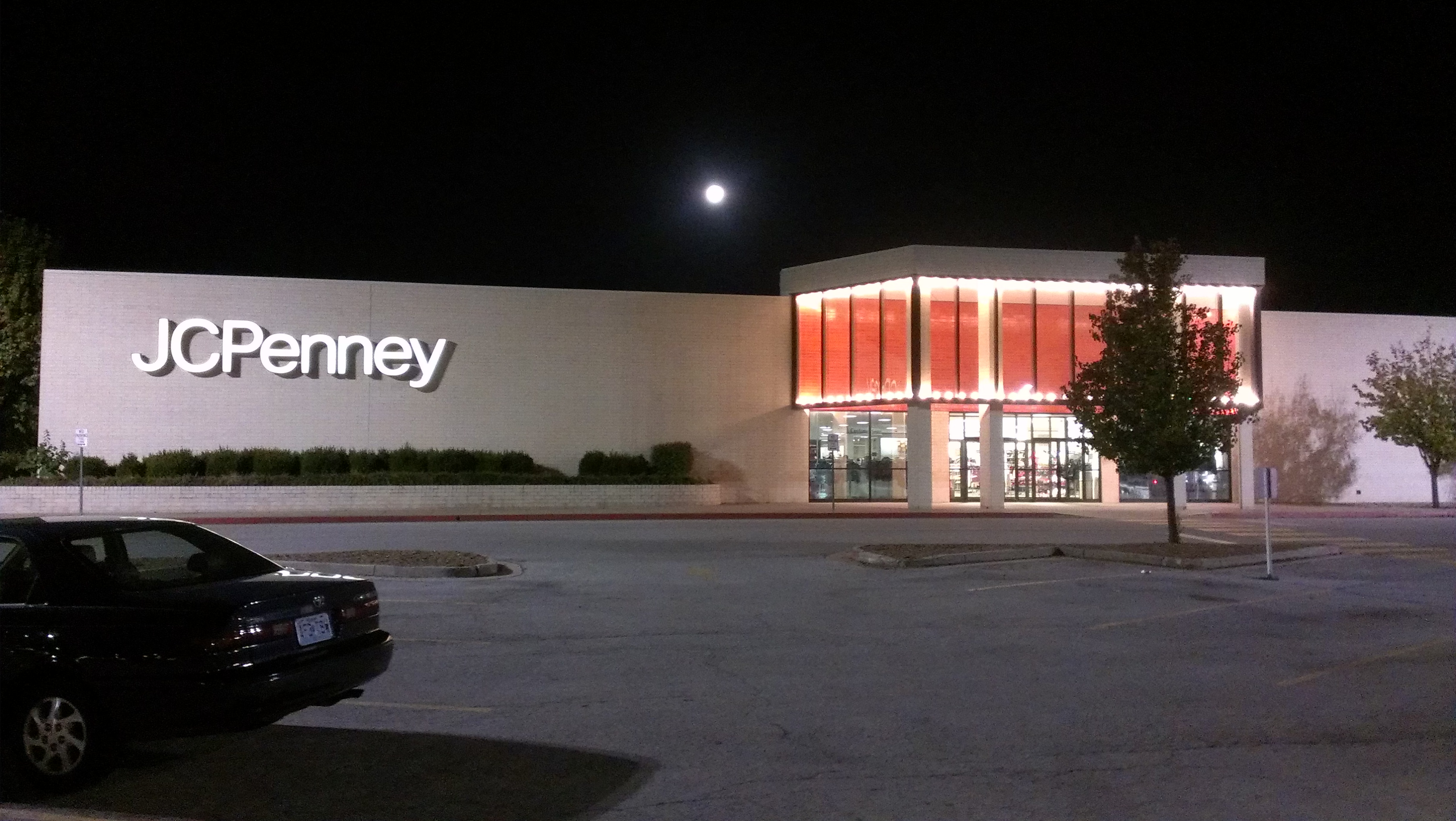 JC Penney at Capitol Mall in Jefferson City, Missouri